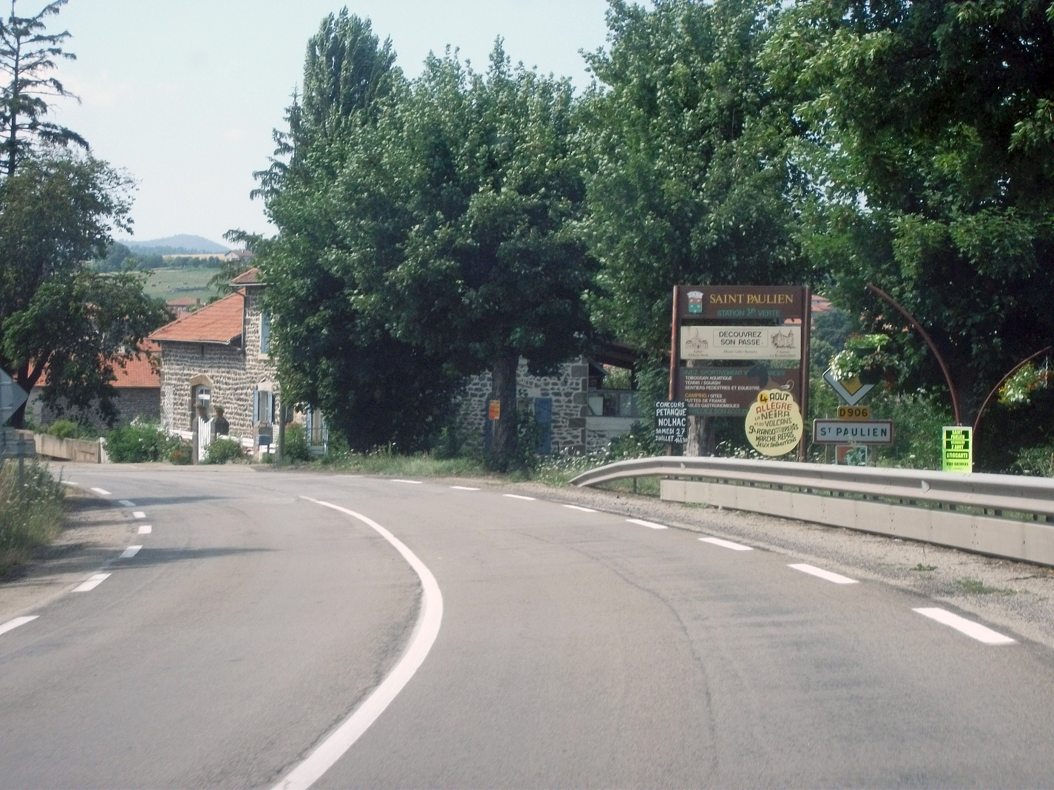 Entrance of Saint-Paulien by departmental road 906 from Le Puy-en-Velay to Vichy.